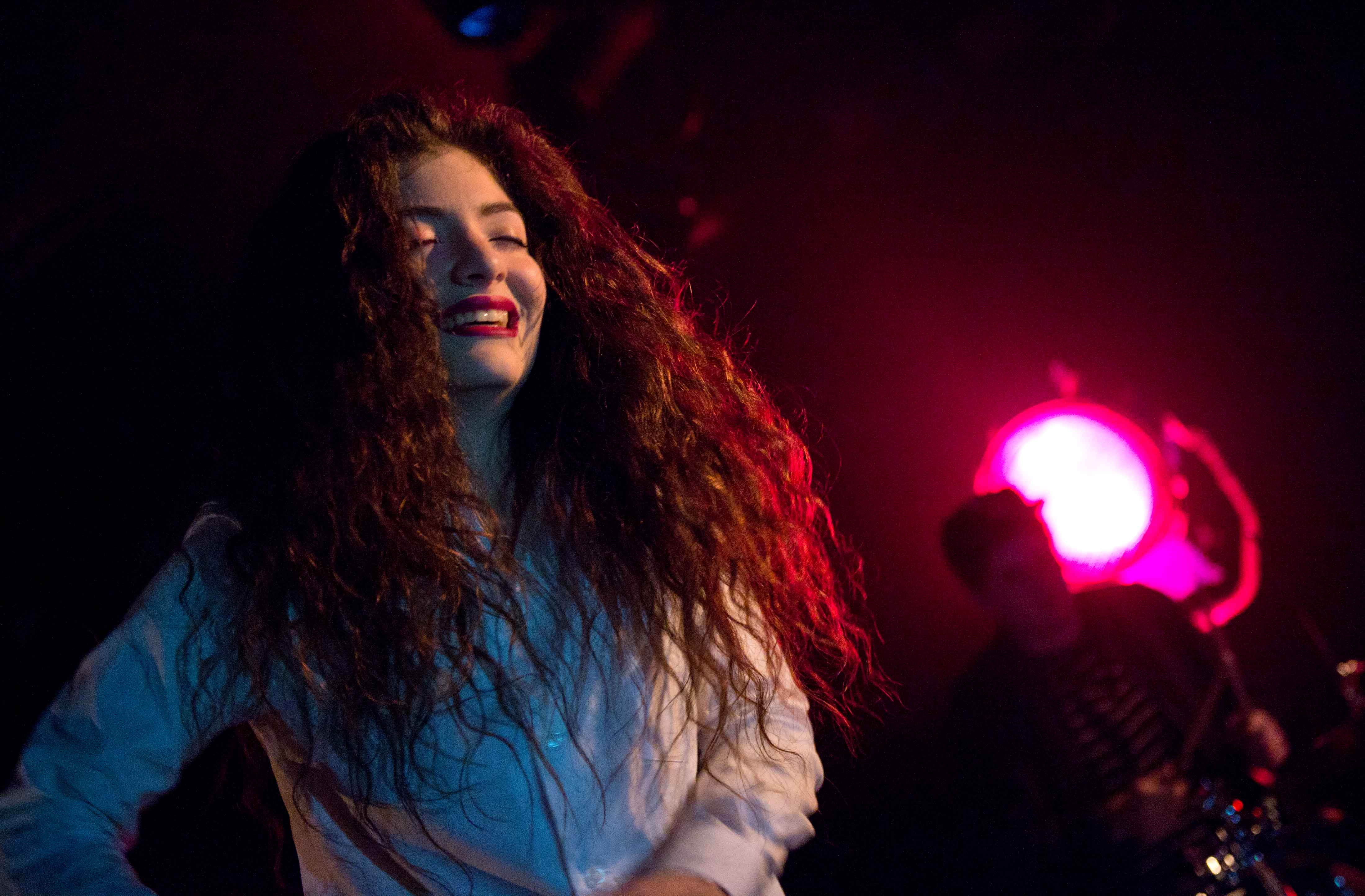 Lorde performs on September 28, 2013 at Showbox at the Market during the Decibel Festival in Seattle, Washington